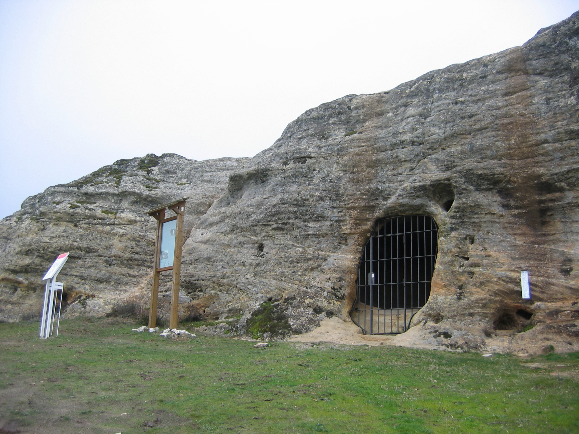 The rock Chapel of San Pelayo was excavated by the hand of the man in a sandstone Ridge near the bottom of the Valley. It is a single nave, which is separated from the header by a small wall partially preserved. In the protected by a fence door image. A 1155 document already mentioned this place like San Pelayo cave.